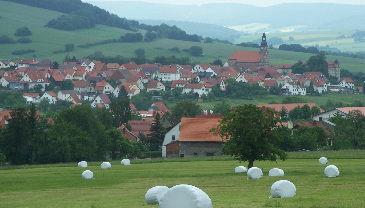 A panorama view of Zella village.